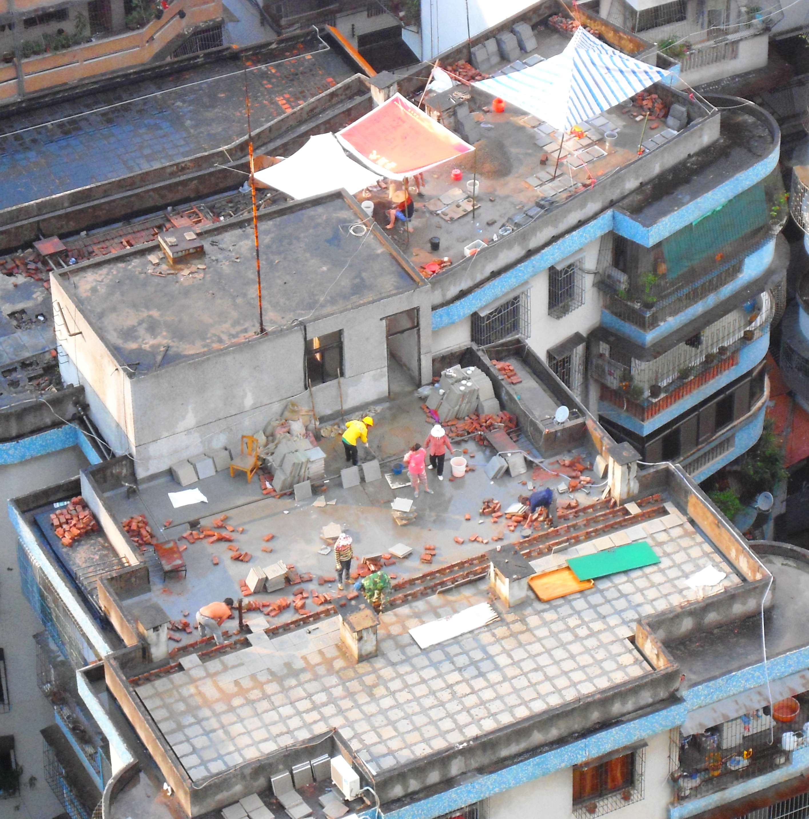 Concrete tiles being installed to insulate a roof from the sun in Haikou City, Hainan Province, China.